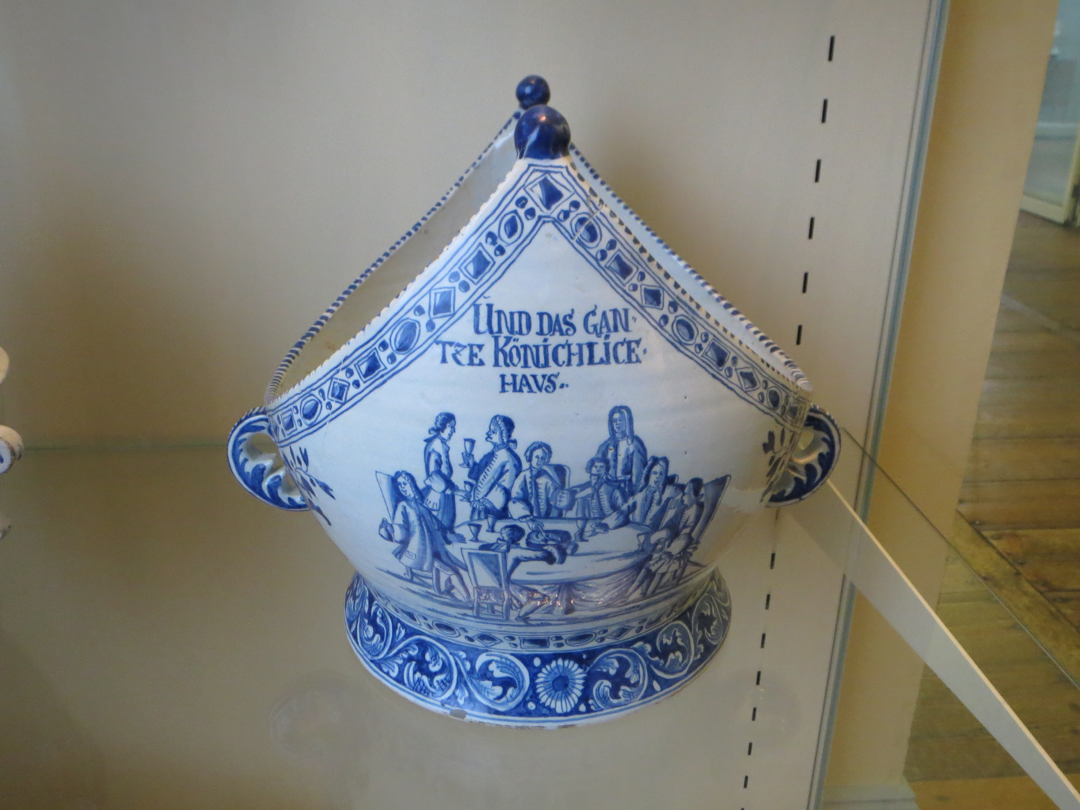 "Bischof" (punch bowl), St. Annenmuseum Lúbeck